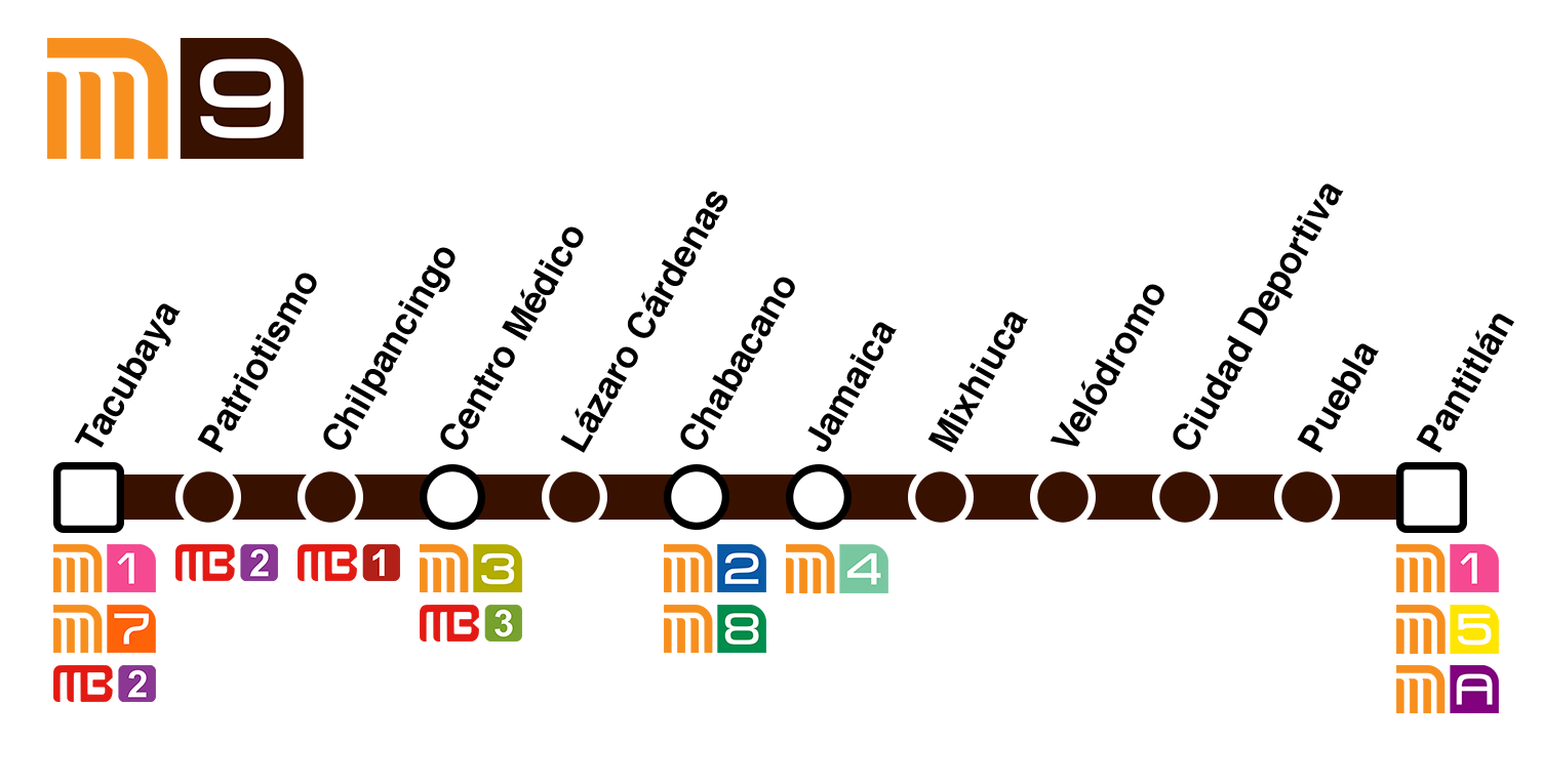 Mexico City Metro Line 9 plan, 2018